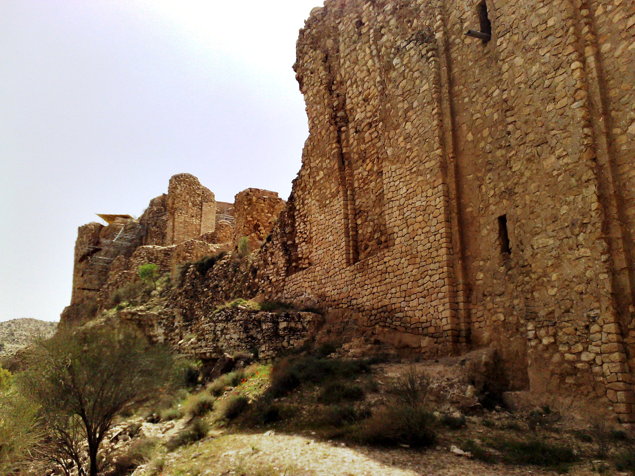 Dokhtar Castle in Firuzabad County of Fars Province, is one of the most majestic structures of Sassanid Empire.